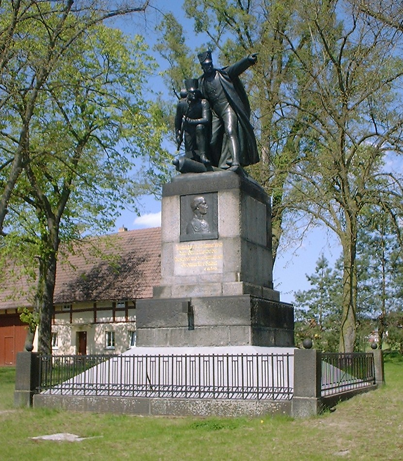 Bülow Memorial, battle of Dennewitz, Brandenburg, Germany (sculptor: Victor Seifert)